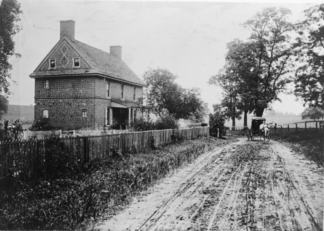 Photocopy of photograph (original print in Chester County Historical Society, West Chester, Pennsylvania) Circa 1905, photographer unknown SOUTH FRONT AND WEST SIDE - Barnes-Brinton House, 630 Baltimore Pike (U.S. Route 1), Chadds Ford, Delaware County, PA